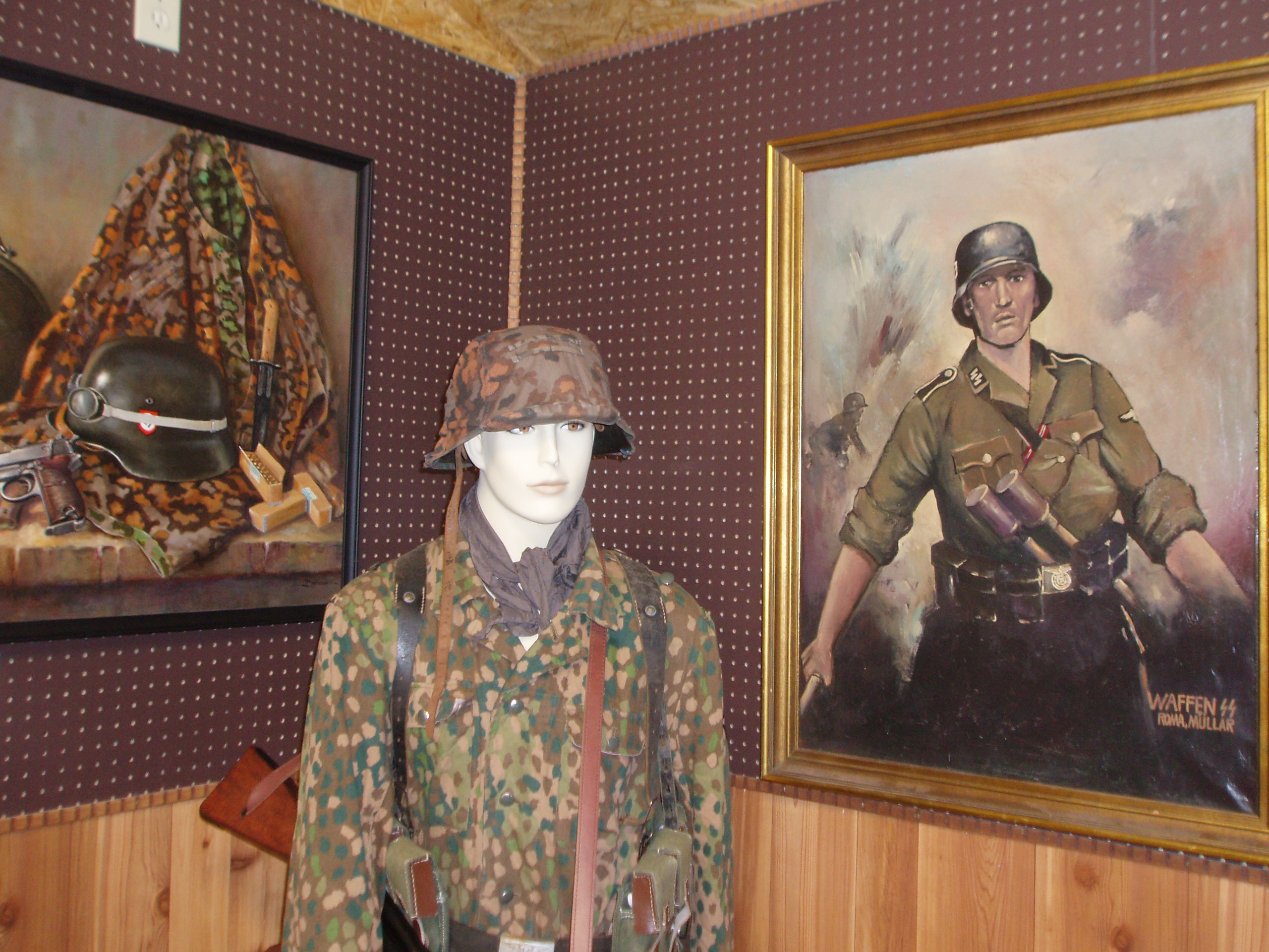 Waffen SS Assault trooper with MP 44 and back ground of original WSS oil paintings.